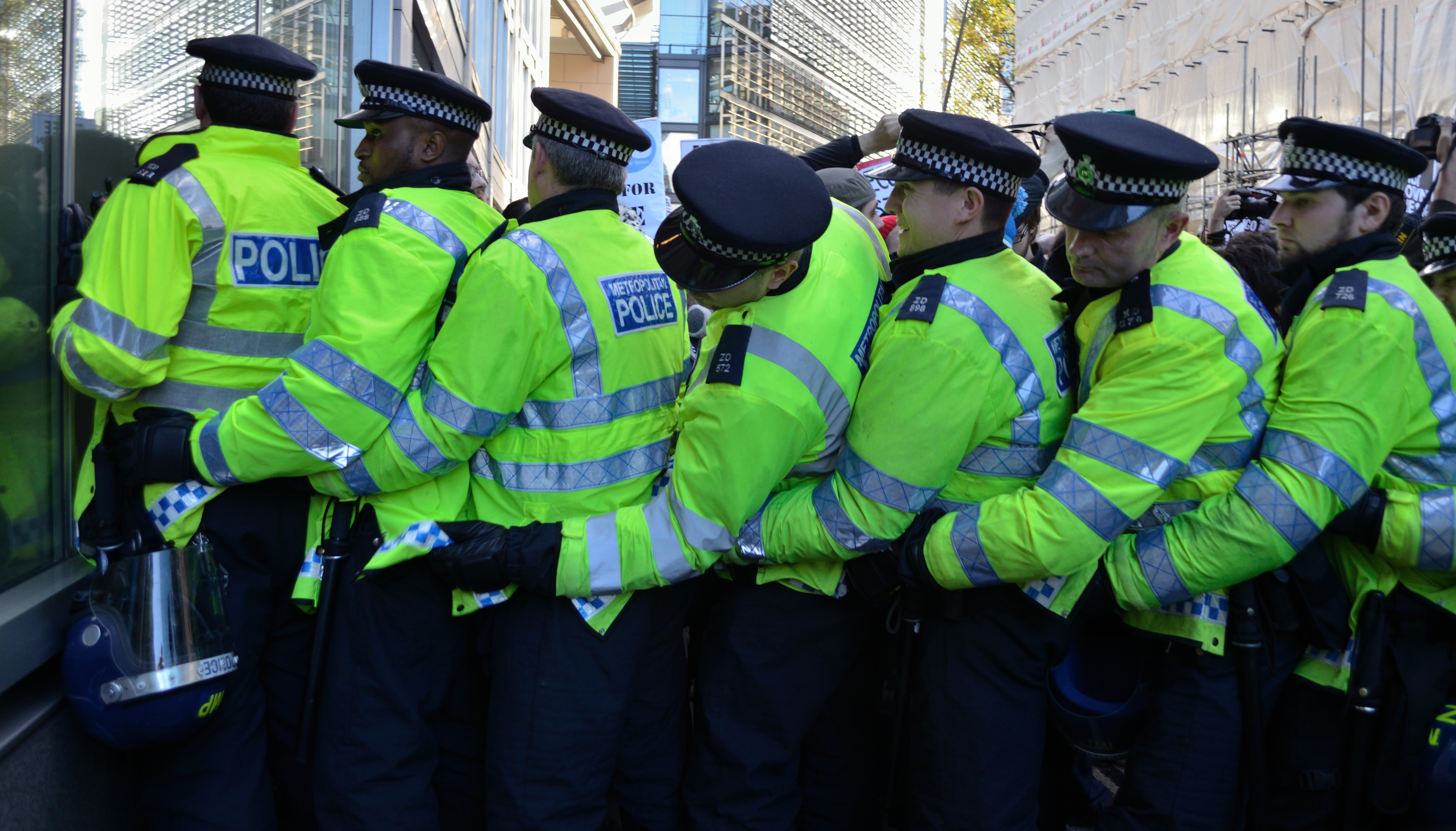 Metropolitan Police officers create a chain to keep protestors from moving forward.